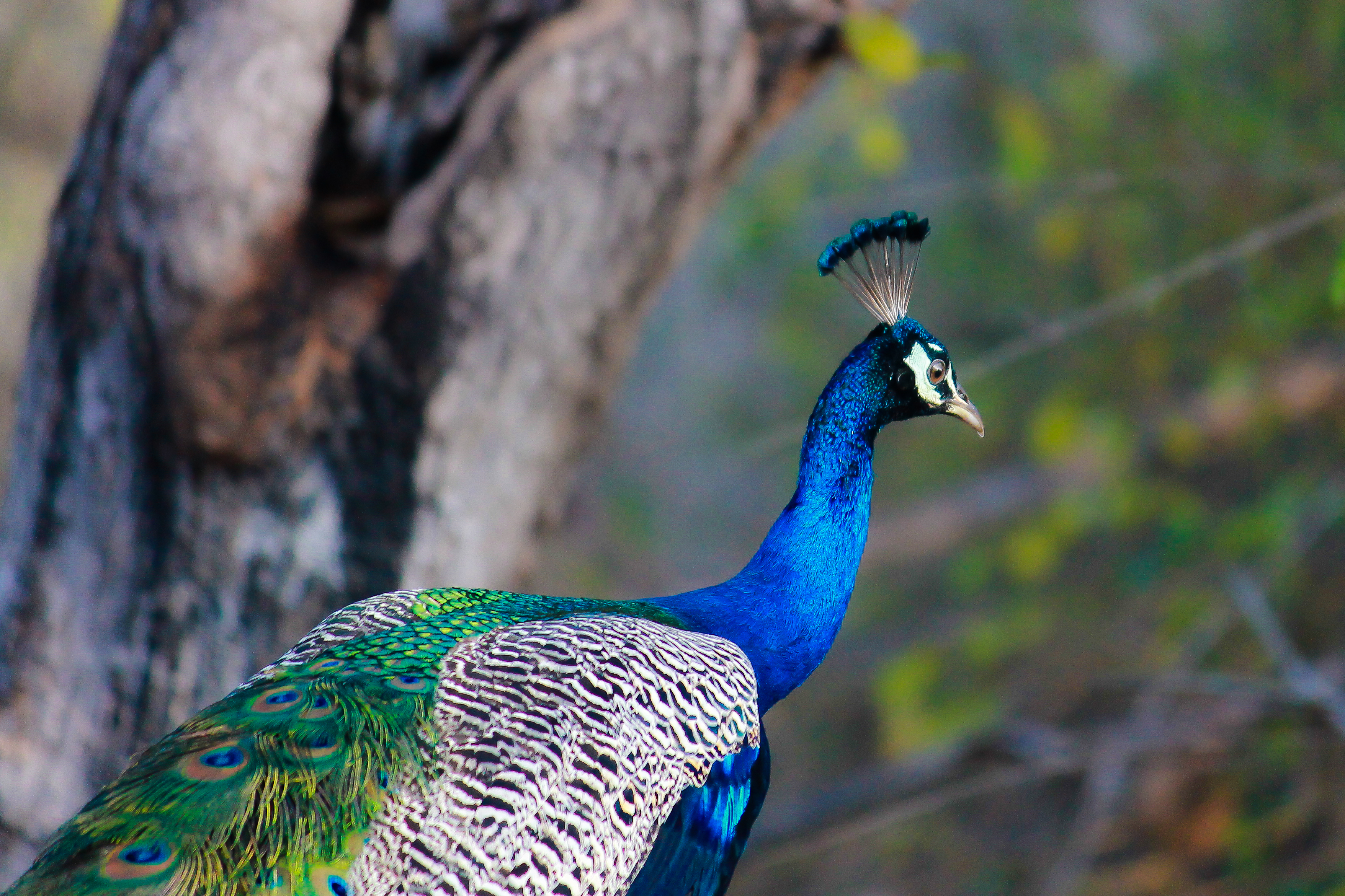 shot at early morning